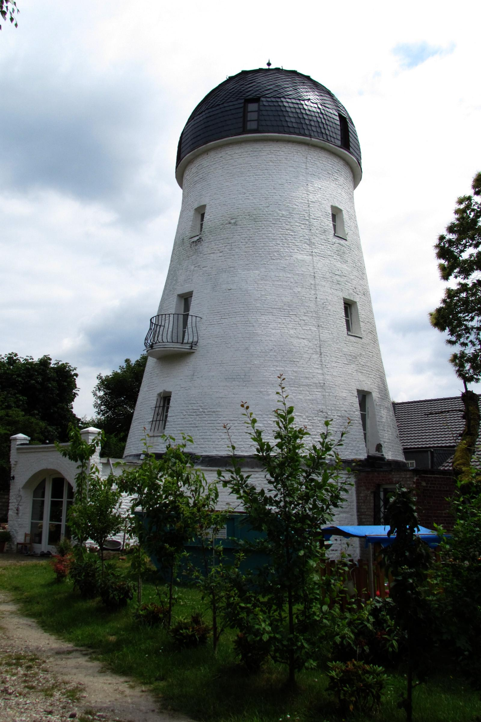 This is a photograph of an architectural monument.It is on the list of cultural monuments of Korschenbroich